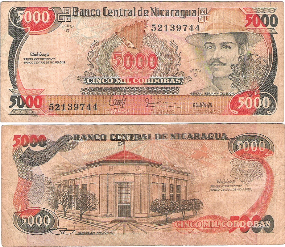 C$5,000 córdobas showing General Benjamin Zeledon(1988)